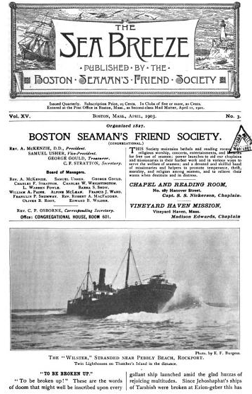 The Sea Breeze. Published by the Boston Seaman's Friend Society. v.15, 1903